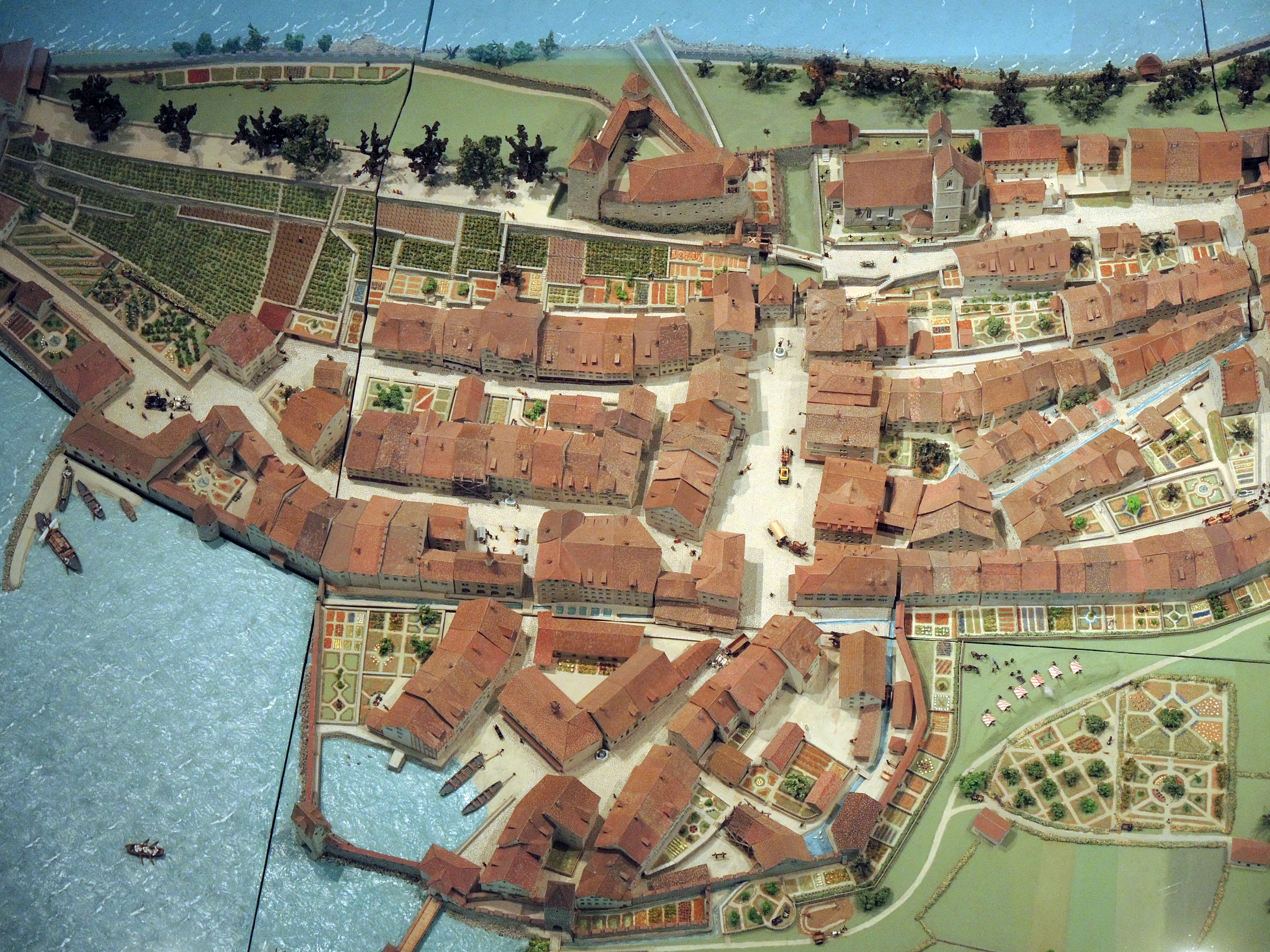 Scale model of the city around 1800 AD, collection of the Stadtmuseum) in Rapperswil (Switzerland) : Focus on Lindenhof hill, the castle and the St. John's church, Altstadt around Hauptplatz square and the harbour area, lakeshore Kapuzinerkloster and Endingernhorn fortification to the left.